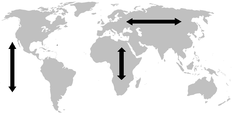 The orientation of continental axes according to Jared Diamond in Guns, Germs and Steel: A short history of everybody for the last 13,000 years.